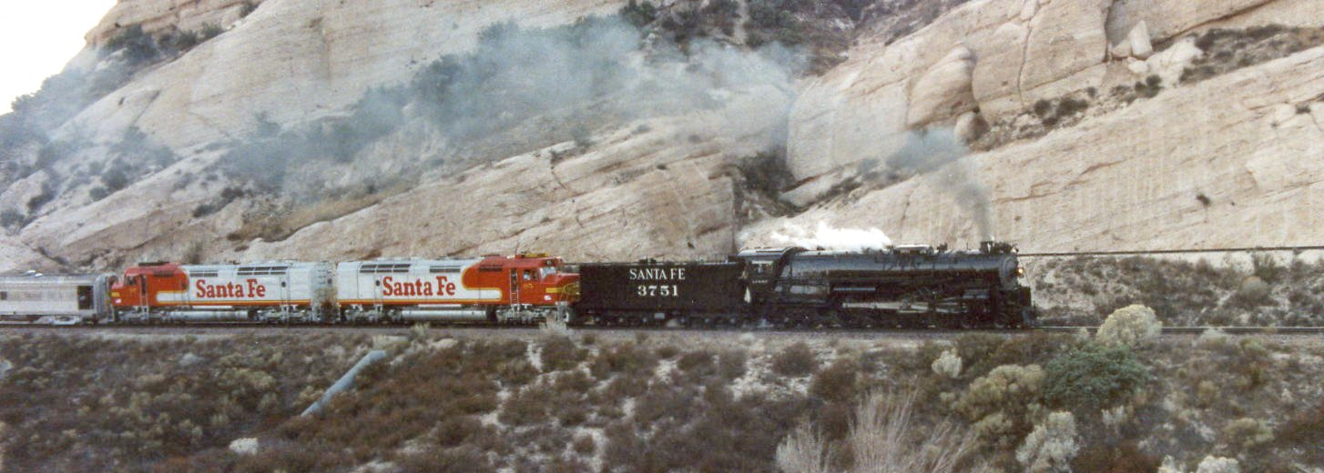 ATSF 3751 passes Sullivan's Curve on California's Cajon Pass. The train is eastbound on 3751's "maiden voyage" after restoration to operating condition. Photo by Sean Lamb (User:Slambo)